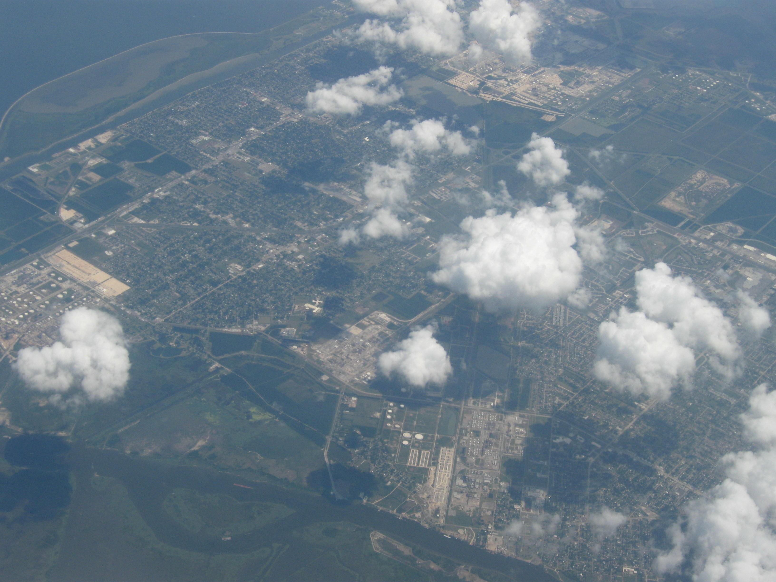 An aerial photograph of Port Arthur, Texas taken from a commercial airliner.